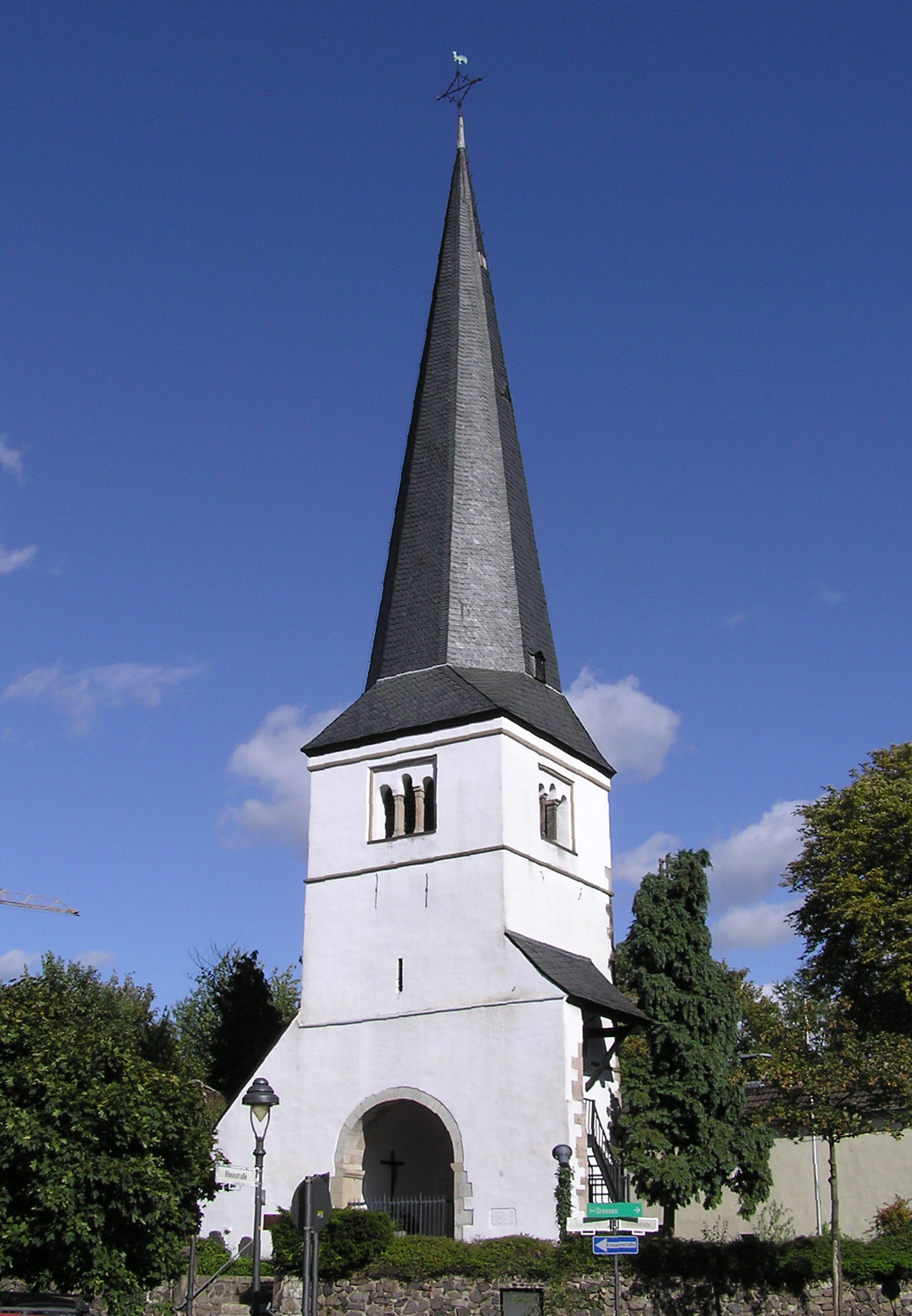 The old church tower of Rüngsdorf, Germany was built in the early 13. century. The nave was demolished in 1900 to create more space in the town center. The tower is used today as bell tower for the Saint Andrew church in Rüngsdorf.